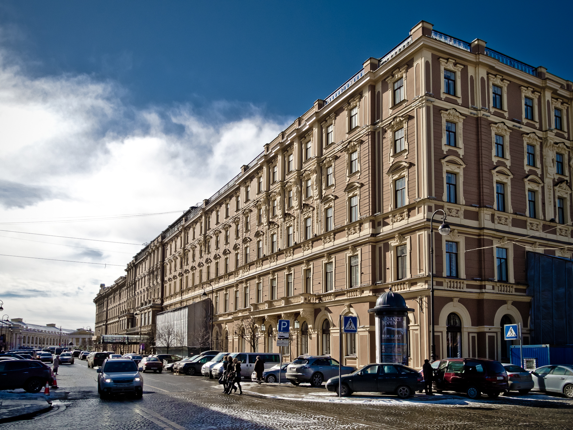 7, Italianskaya Street in Saint Petersburg.